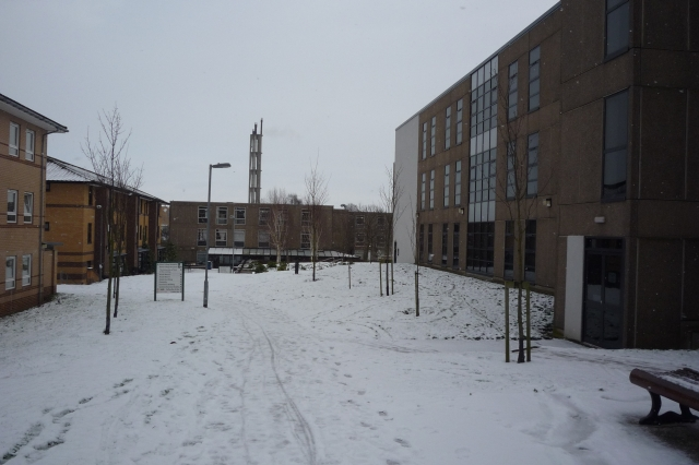 Alcuin College in Snow Part of Alcuin College at the University of York. Ahead is the reception and bar below the boilerhouse chimney.